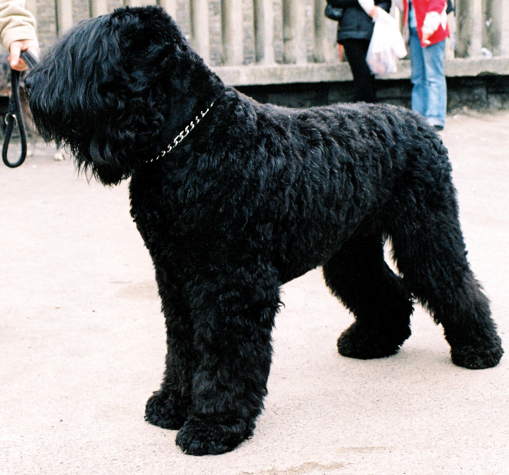 Black Russian Terrier during the international show of dogs in Katowice - Spodek, Poland.